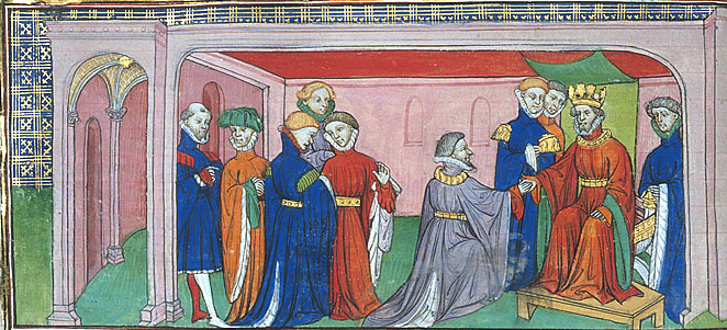 Detail of a miniature of Charles of Salerno being taken from prison and brought before Alfonso of Aragon